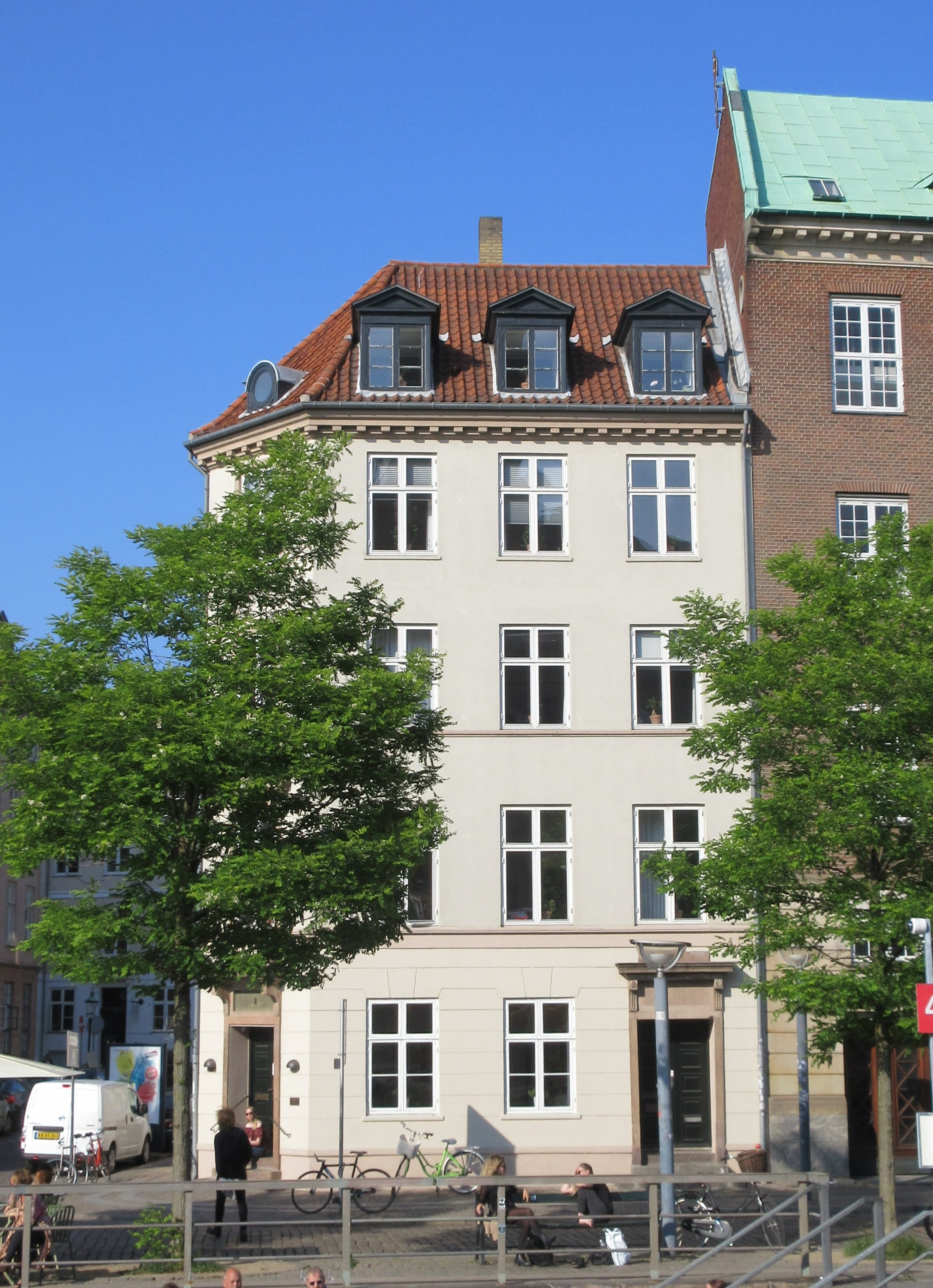 Ved Stranden 8 in Copenhagen, Denmark